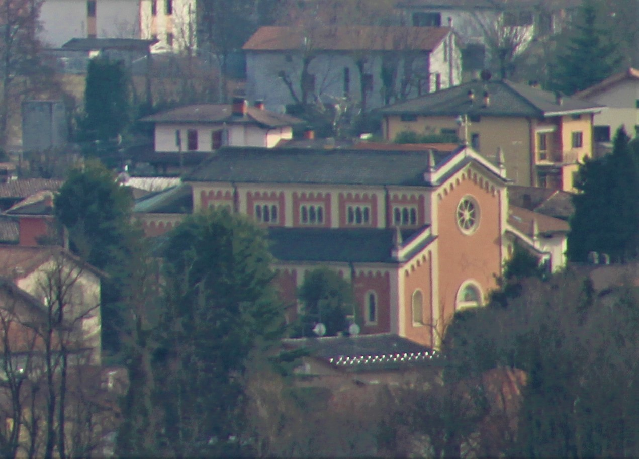 Valmorea - SS. Donato e Giovanni Bosco in Caversaccio